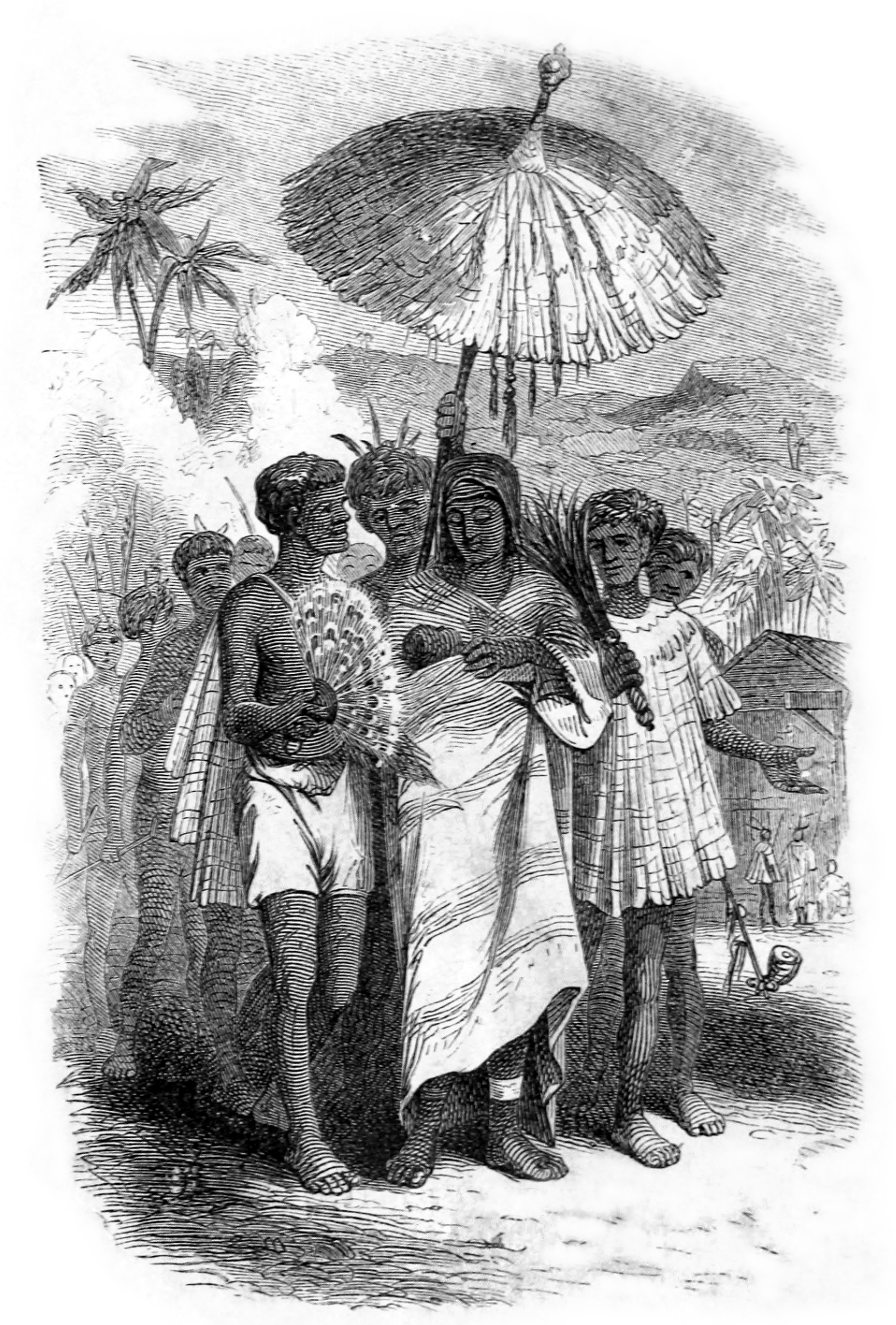 Illustration from The Christian Queen about Keōpūolani.